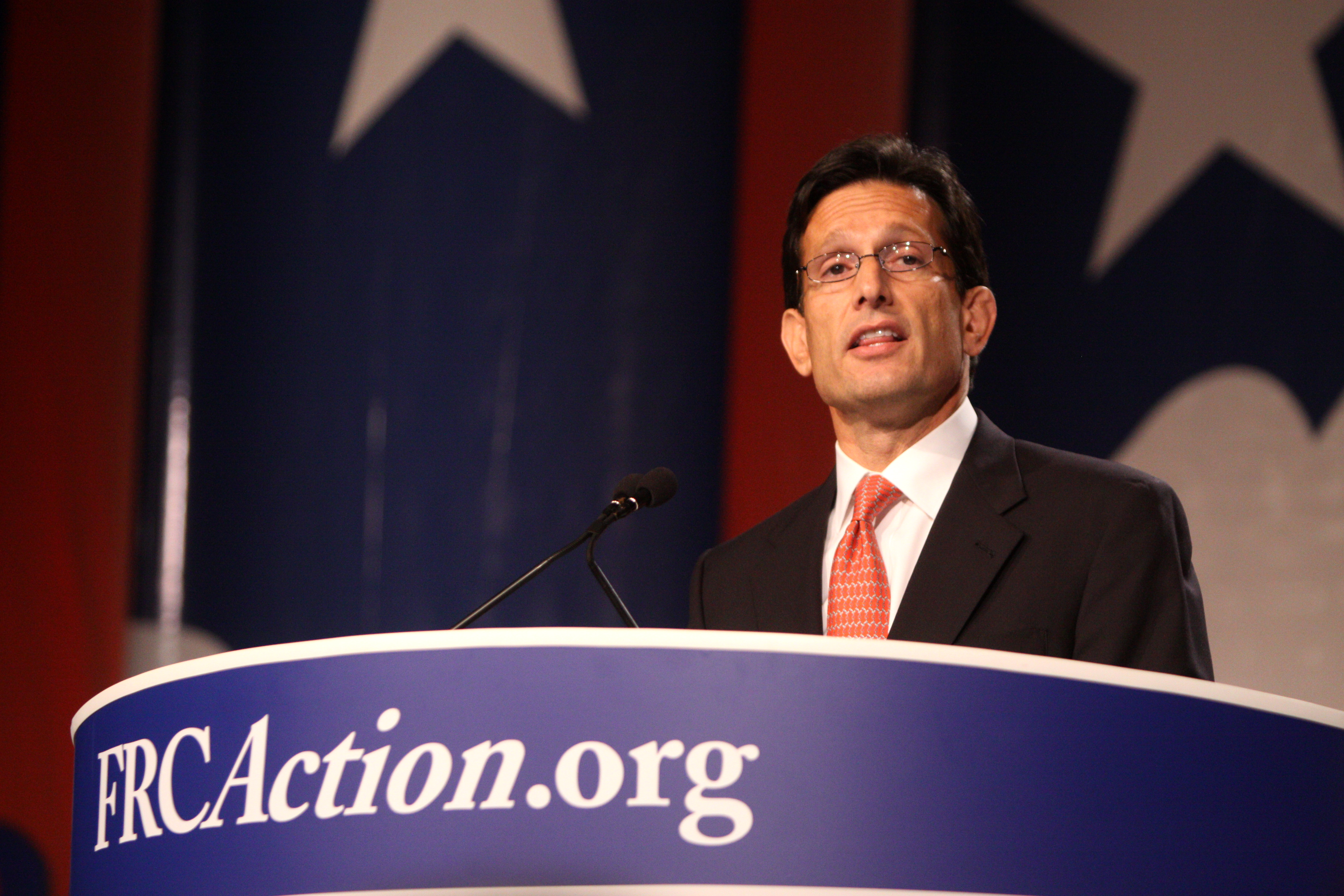 Majority Leader Eric Cantor speaking at the Values Voter Summit in Washington, DC..